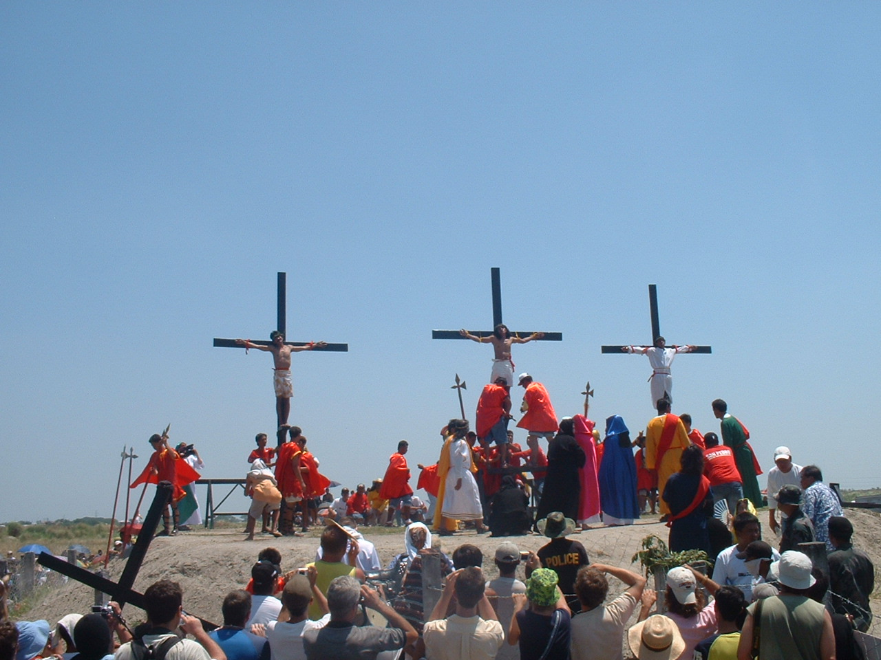 Near Crucifixion site on 'San Fernando to Crucifixion site' (15.012580,120.698034)+17m. Near Crucifixion site on 'San Fernando to Crucifixion site' (15.012580,120.698034)+17m